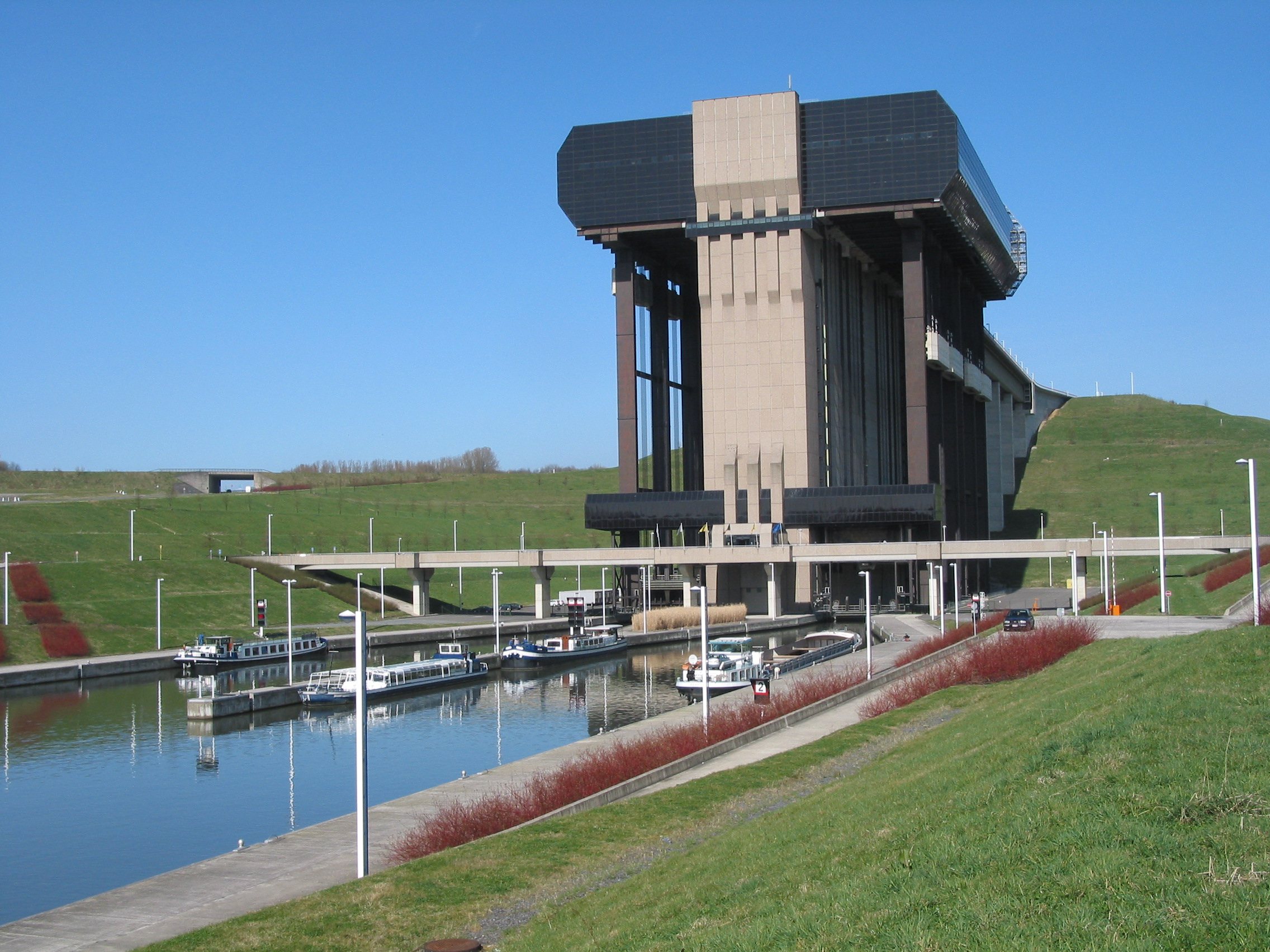 Strépy-Bracquegnies (Belgium), the biggest ship elevator in Europe.